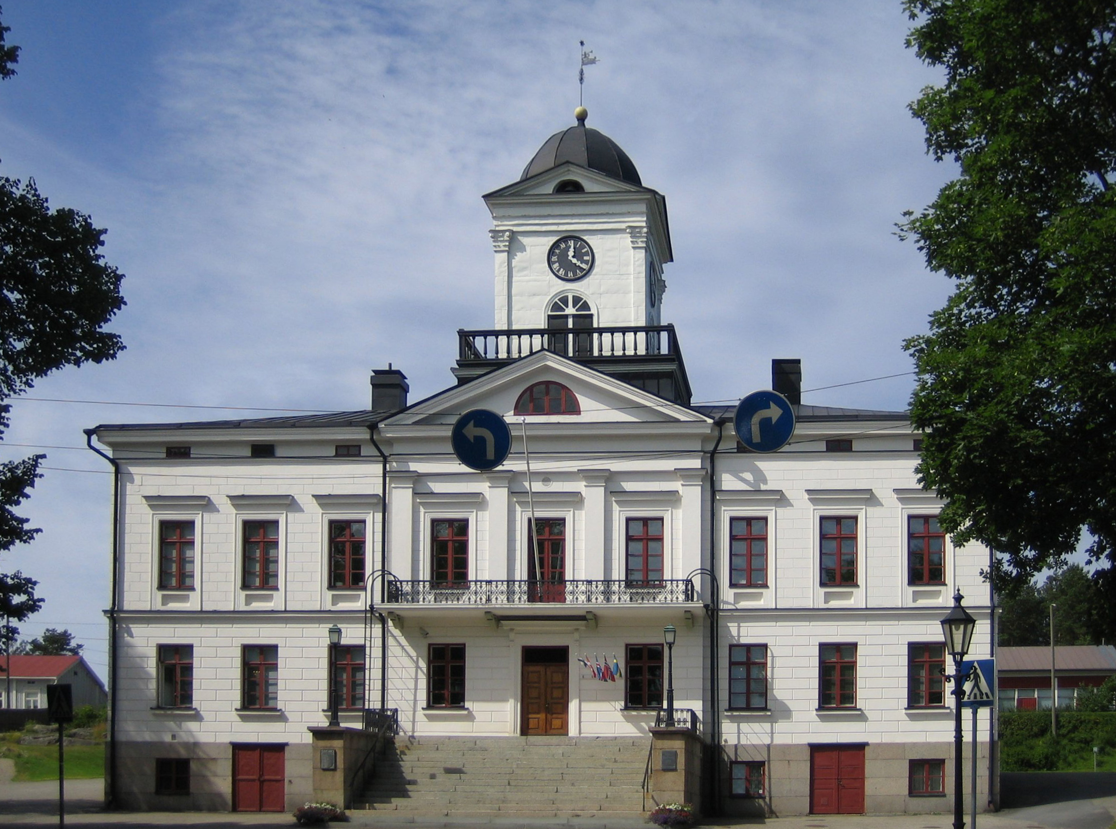 Kristinestad Town hall in Kristinestad, Finland